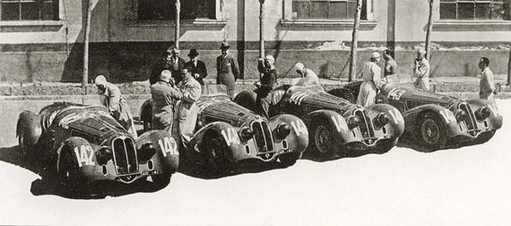 Alfa Romeo 8C 2900 at 1938 Mille Miglia on 2–3 April. They made five such cars. From left (serial numbers from [1] and [2]):#142 Carlo Maria Pintacuda/Paride Mambelli (2nd place), the 1938 Alfa Romeo 8C 2900 Mille Miglia (Ralph Lauren) 412.030 #148 Siena/Villoresi (did not finish), s/n 412034#141 Farina/Meazza (did not finish), s/n 412032. This was rebuilt, see Alfa Romeo 8C 2900 in the Musée National de l'Automobile. #143 Biondetti/Stefani (1st place) the 1938 Alfa Romeo 8C 2900 B Mille Miglia (Simeone) 412.031